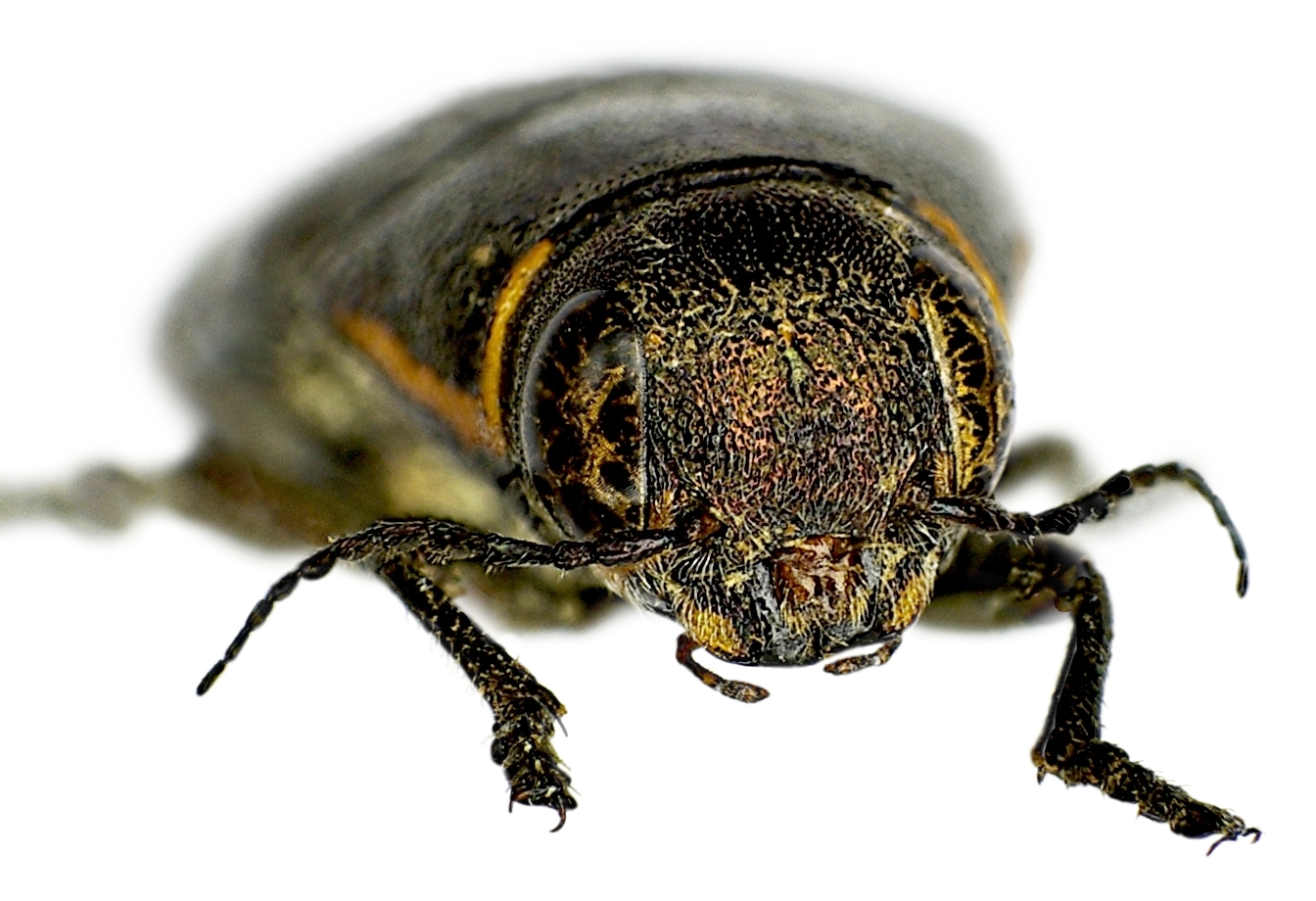 Buprestis dalmatina from Greece